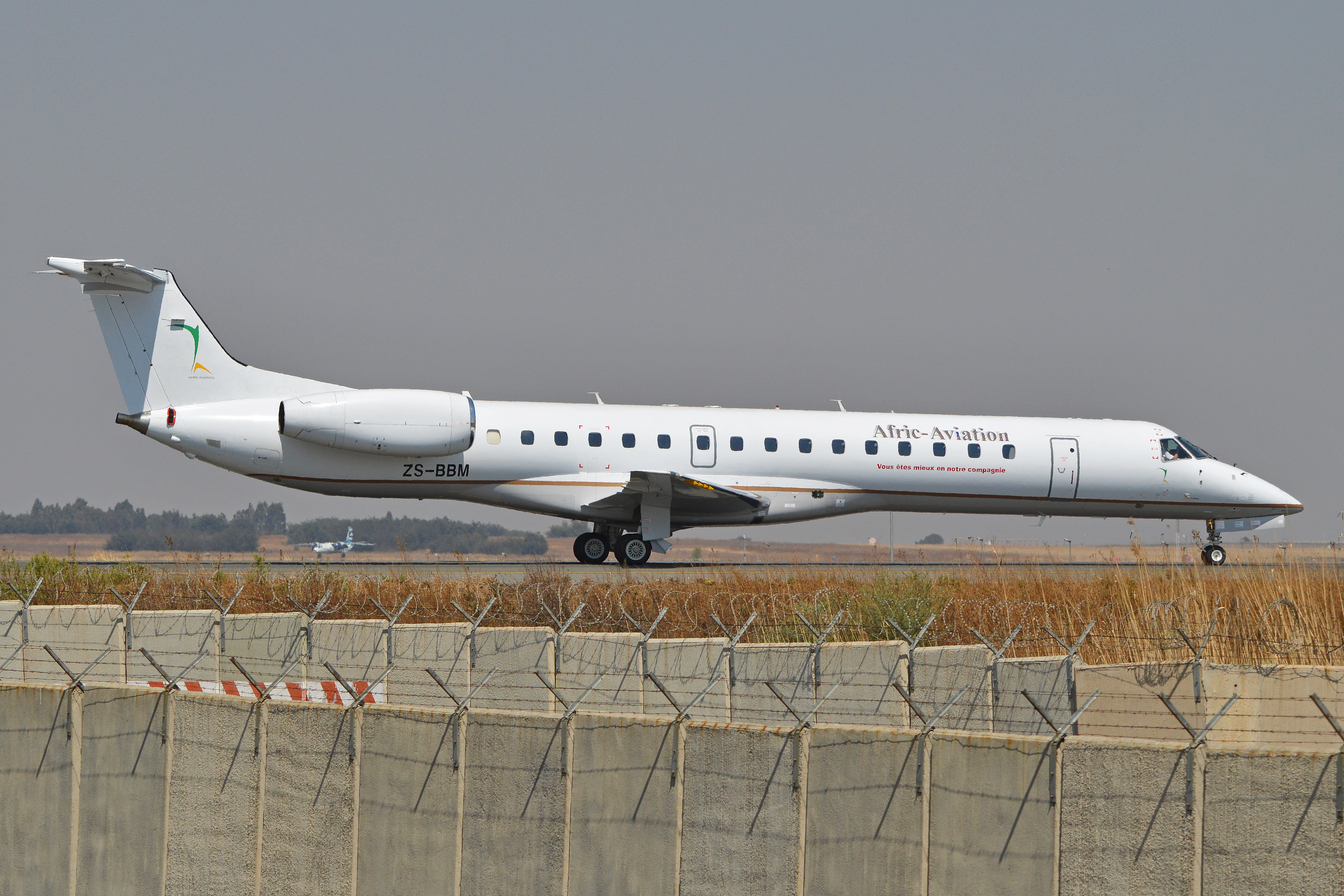 c/n 145597. Built 2002. Operated by Solenta Aviation with 'Afric Aviation' titles. Seen taxiing in after landing at O.R. Tambo International Airport, Johannesburg, South Africa. 16-9-2014